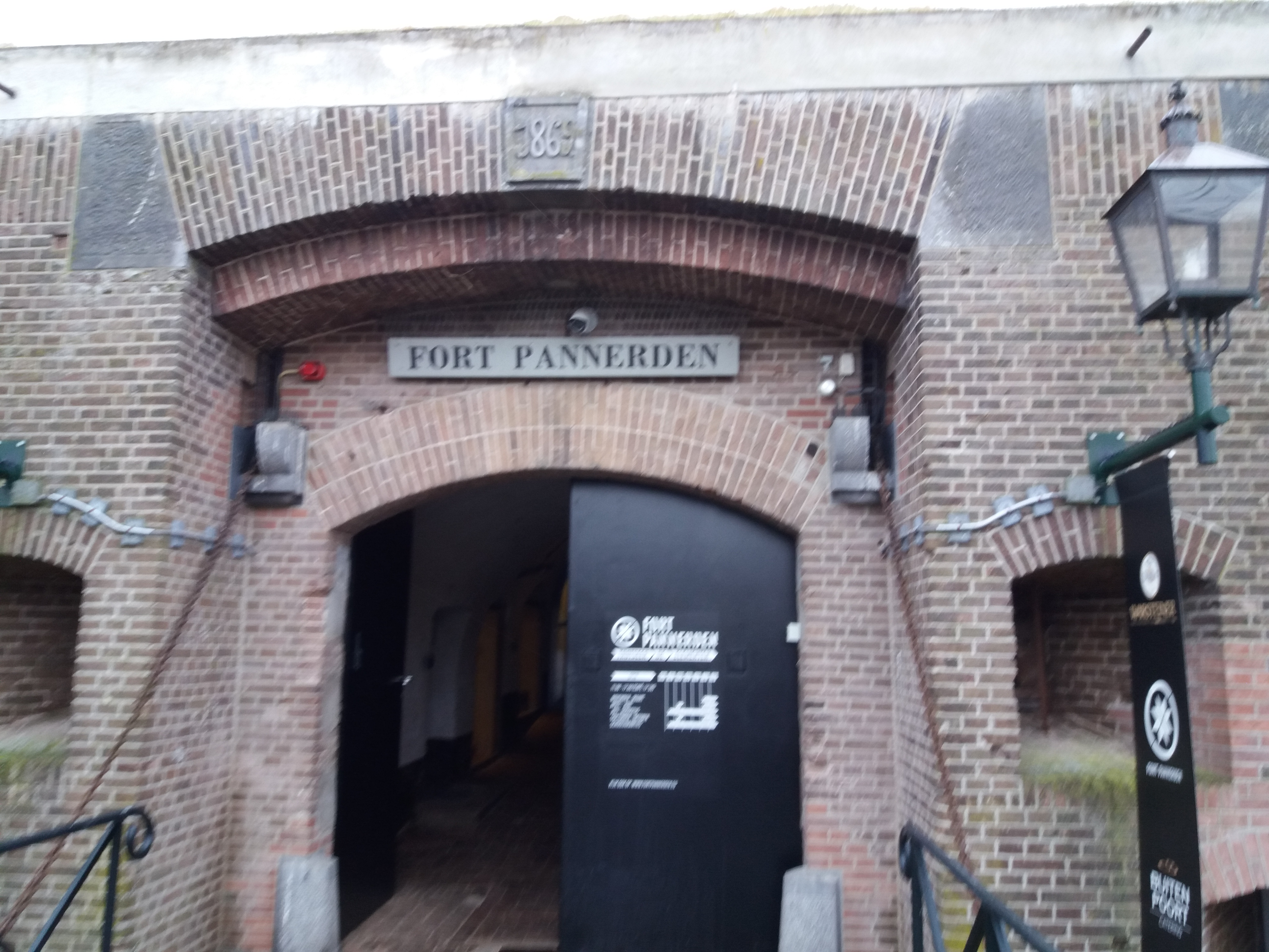 Fort Pannerden